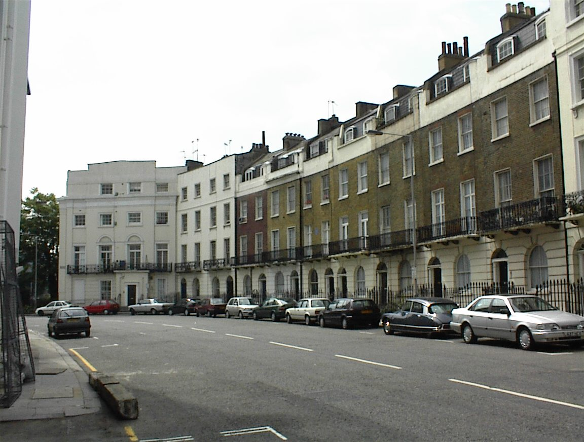 Mornington Crescent Photographed by Jeff Knaggs 2001